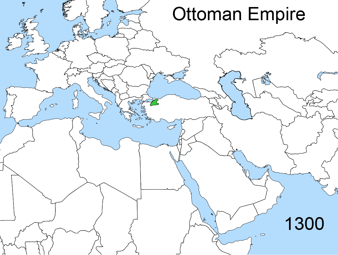 Territorial changes of the Ottoman Empire